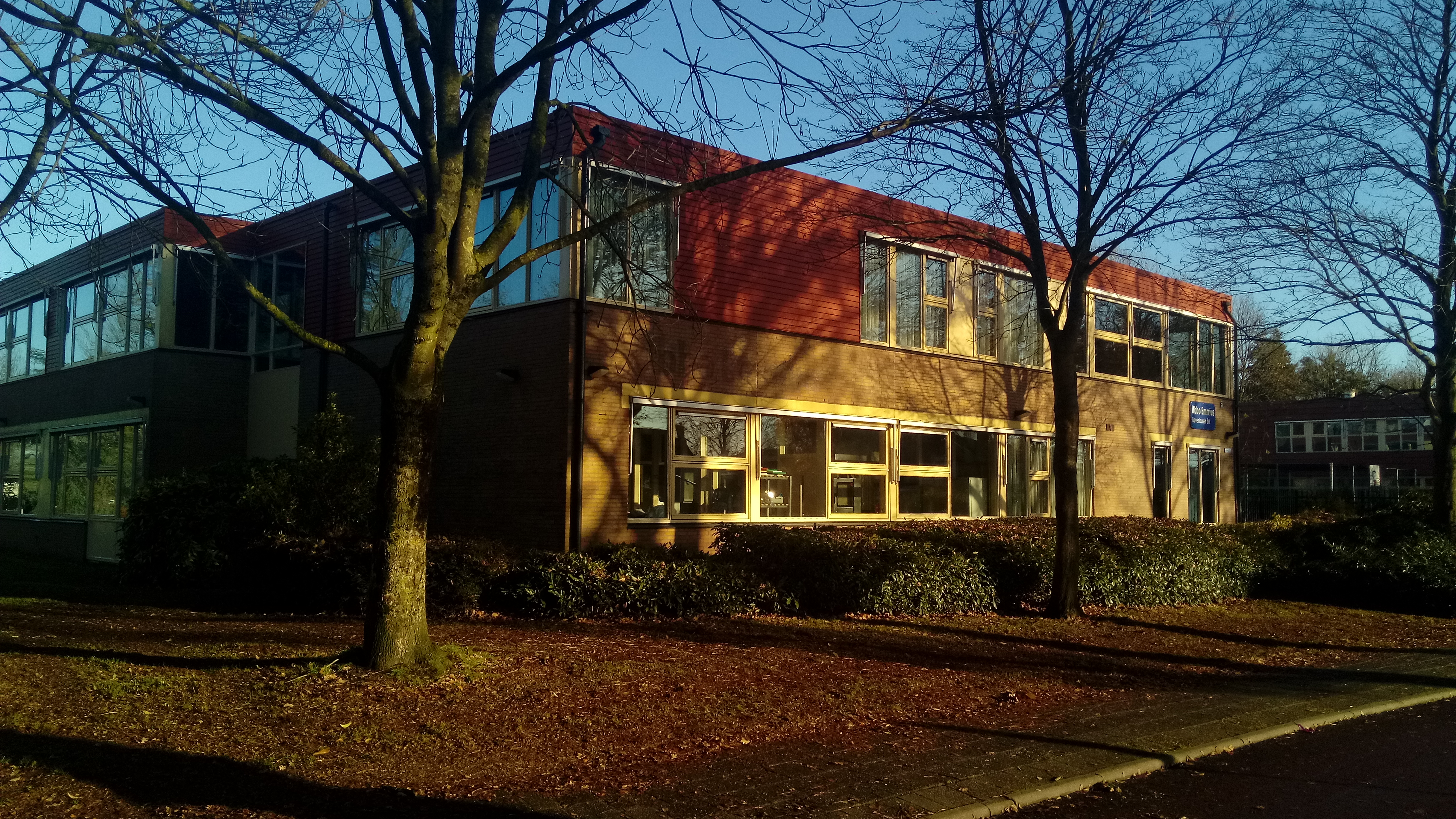 A small local school in the Groninger city of Winschoten, Oldambt.